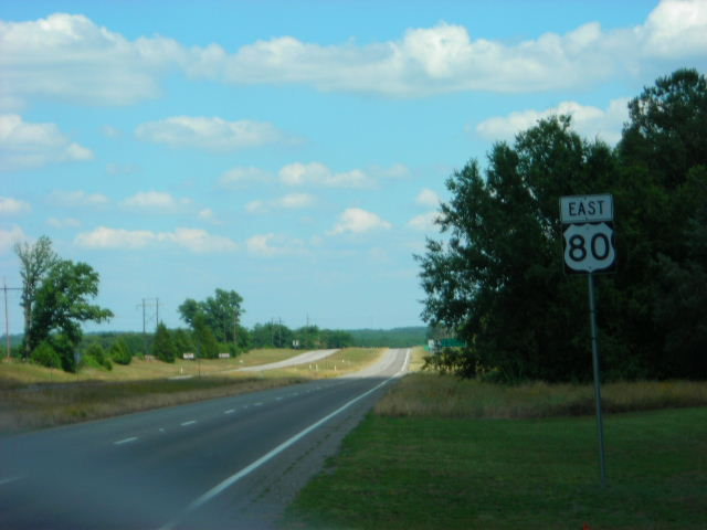 Highway 80 Eastbound just outside of Mineola, Texas. Photo by Danny Burten, 06/05/06.